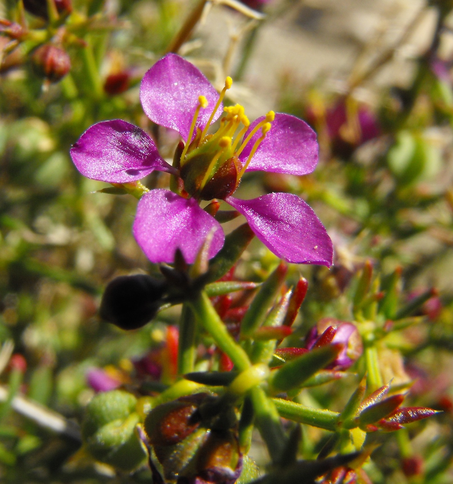 Fagonia laevis in Anza Borrego Desert State Park, California, USA